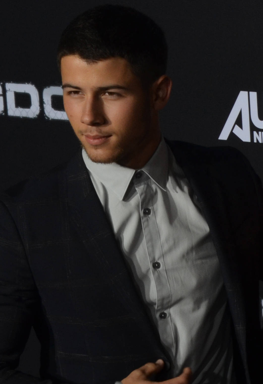 Nick Jonas, Joanna Going, Matt Lauria, Frank Grillo, Jonathan Tucker at the premiere of the DIRECT TV series "Kingdom" on October 1, 2014